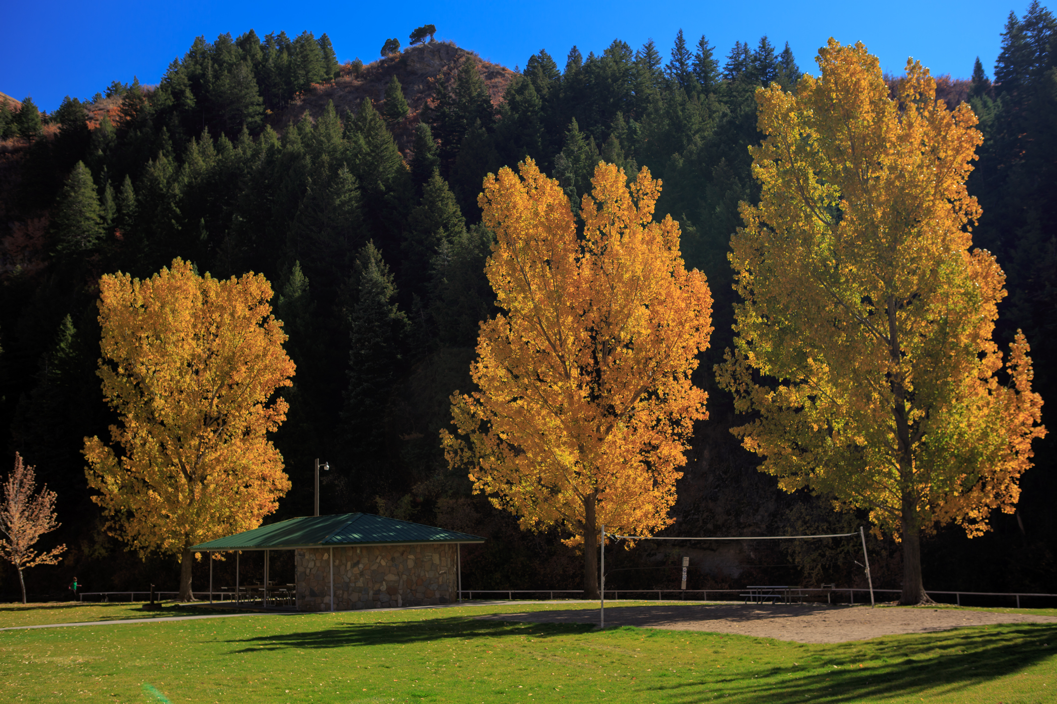 …Provo Canyon shots on Hwy 189 (Utah)